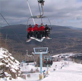 Hunter Mountain ski lift - Robert Swanson